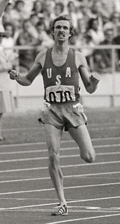 Press Photo Cuban athlete Alberto Juantorena is subject of PBS WORLD Series